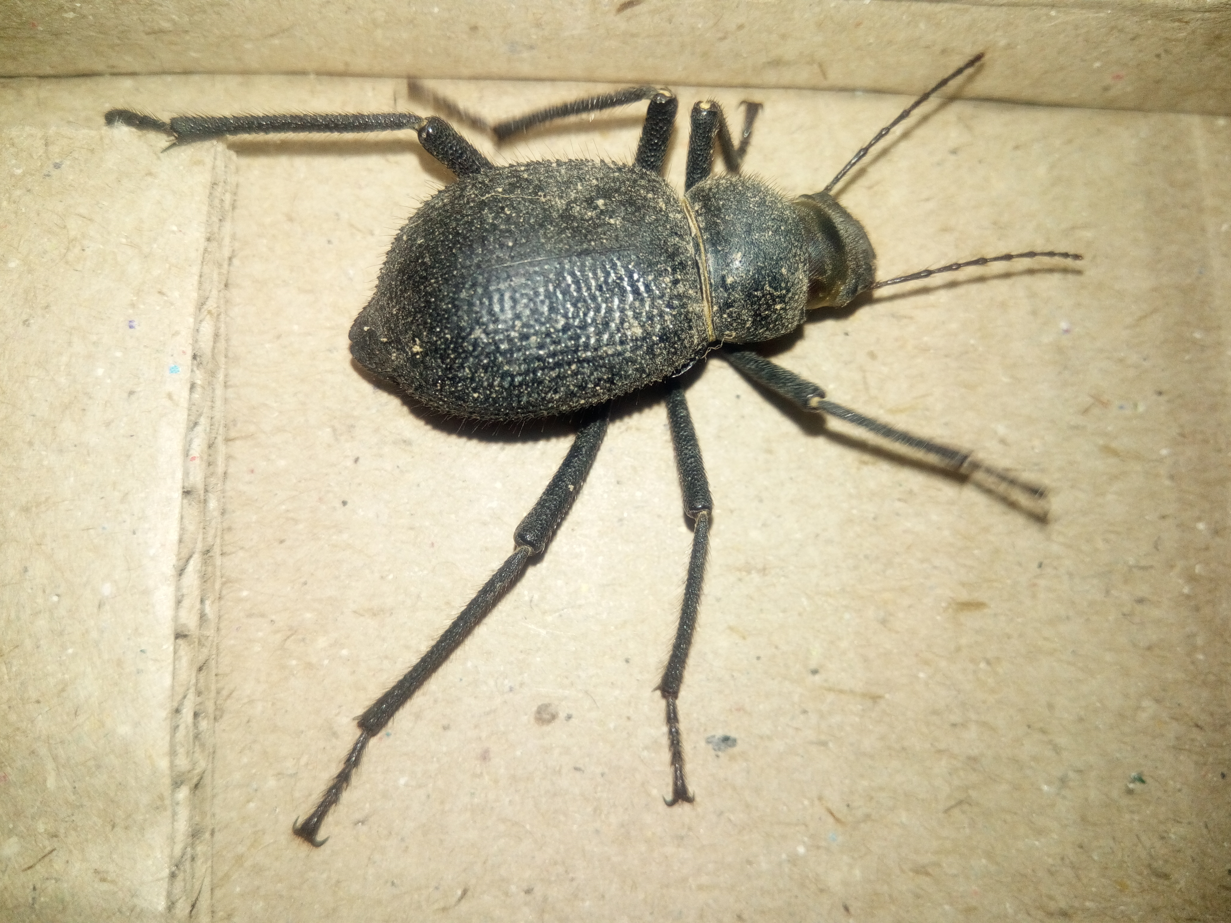 Beetle in Tharparkar